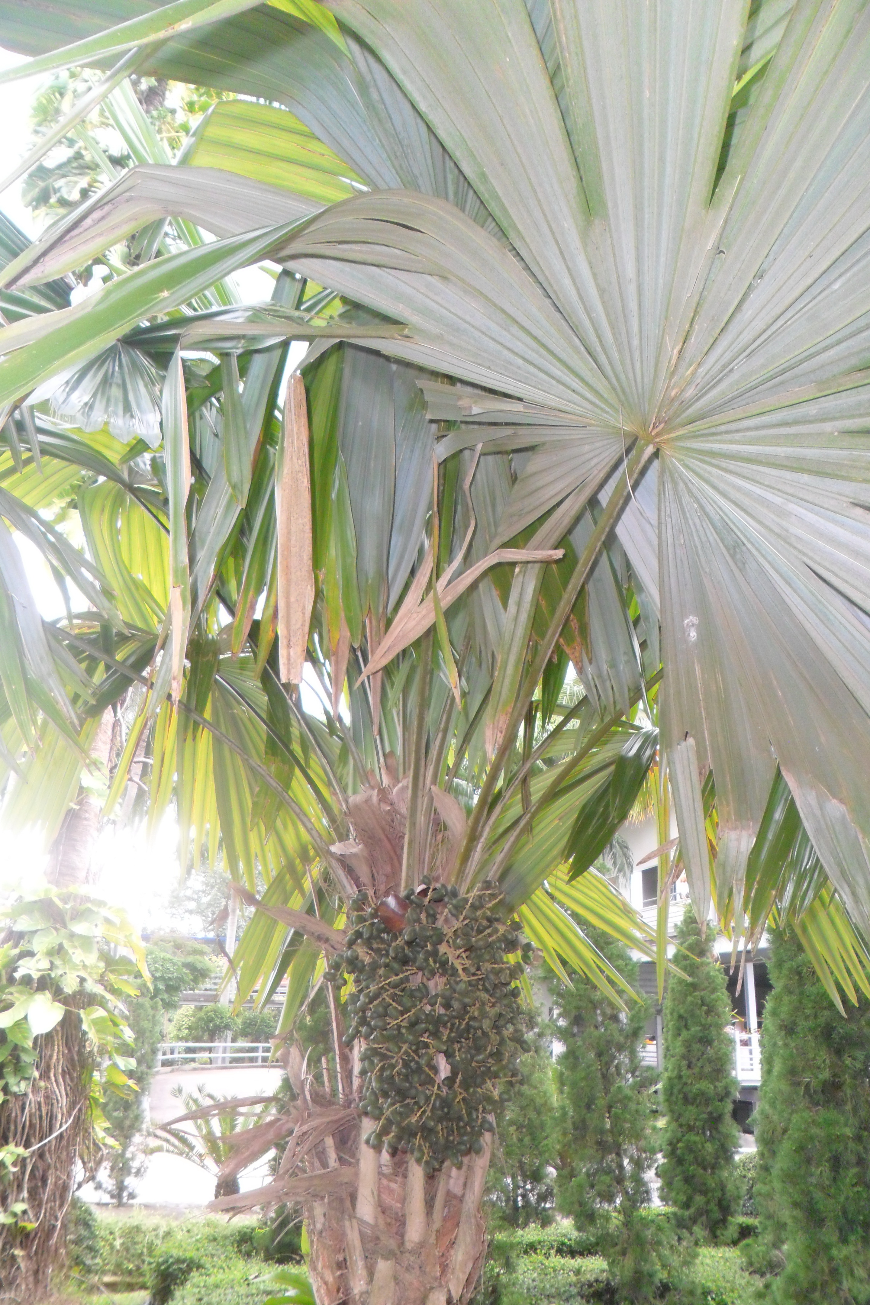 Fruits Itaya amicorum. Nong Nooch Tropical Garden.